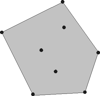 The convexe closure of a set of 8 points